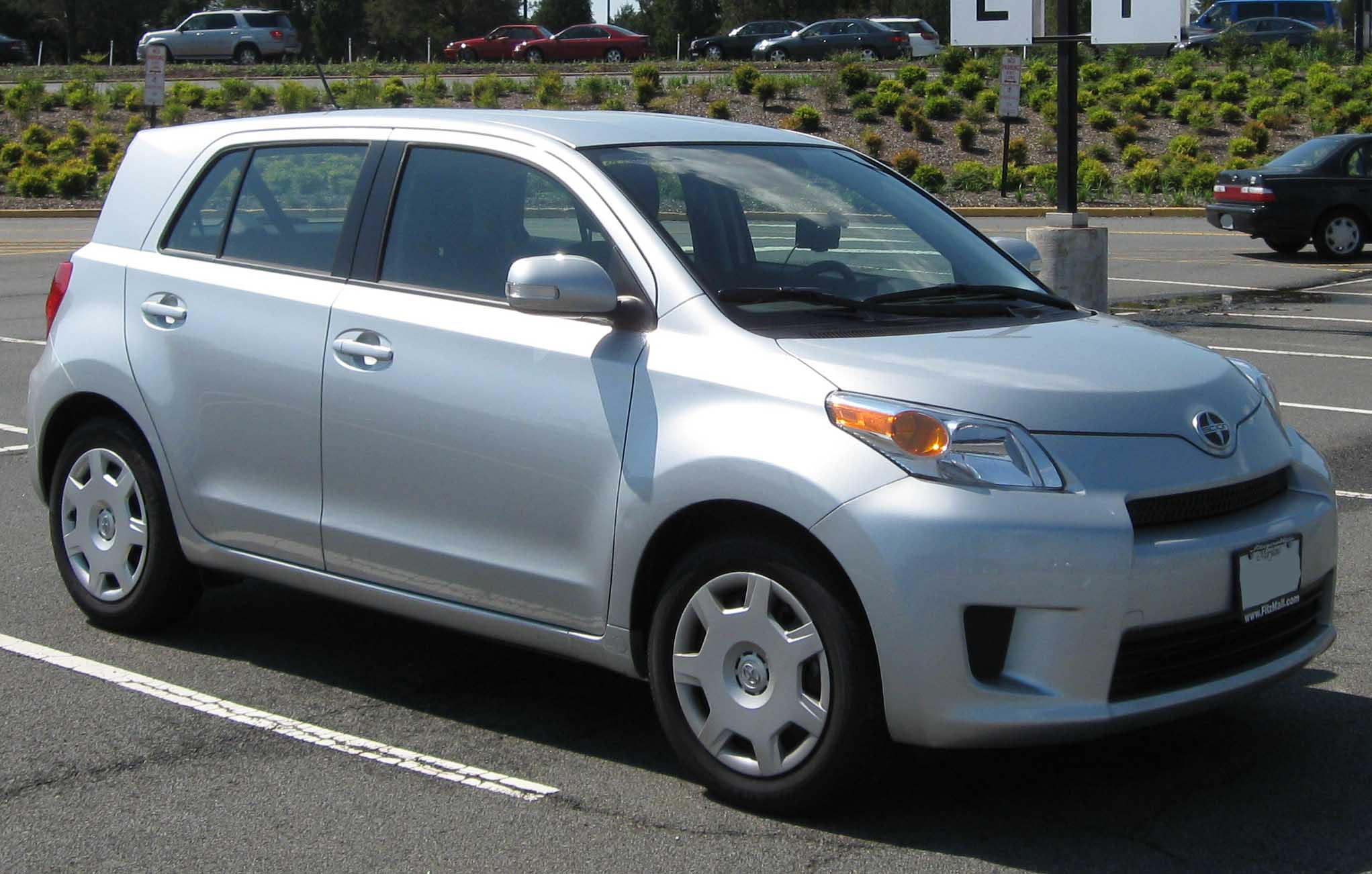 2008 Scion xD photographed in Sterling, Virginia, USA.